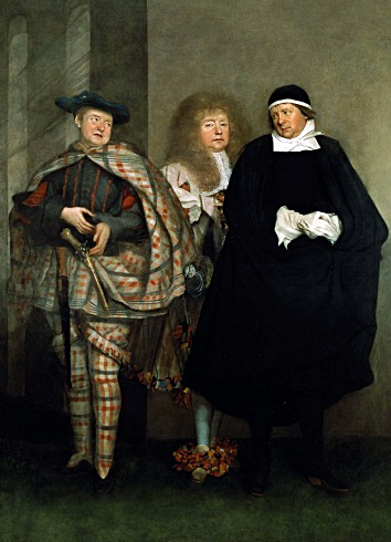 Lacy in three of his most celebrated roles: the lead from Sauny the Scot: or The Taming of The Shrew (his own adaptation from Shakespeare performed at the Theatre Royal in 1667); Monsieur Device from The Country Chaplain (by the Duke of Newcastle); and Scruple from The Cheats (by John Wilson). John Lacy was a comic actor and dramatist, and a particular favourite of Charles II. He became a star performer at the Theatre Royal in London.